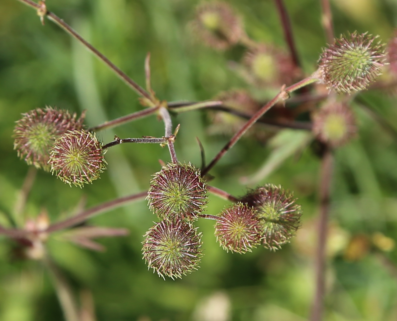 Large-leaved avens (Geum macrophyllum) in fruit - spheres of dark-red, green-tipped styles. At 10,240 ft (3,120 m) at the Mosquito Flat trailhead, below Little Lakes Valley and the Rock Creek Basin, Eastern Sierra Nevada USA.